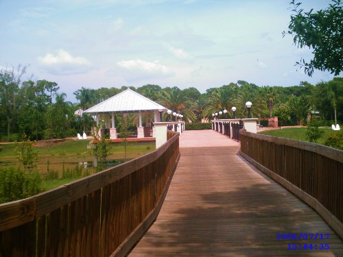 Boardwalk bridge over McKay Creek at Pinecrest Cultural Center, looking east facing entrance to Florida Botanical Gardens. Taken July 17, 2006. Vupoint DC-306AT 3.1 megapixel digital camera.